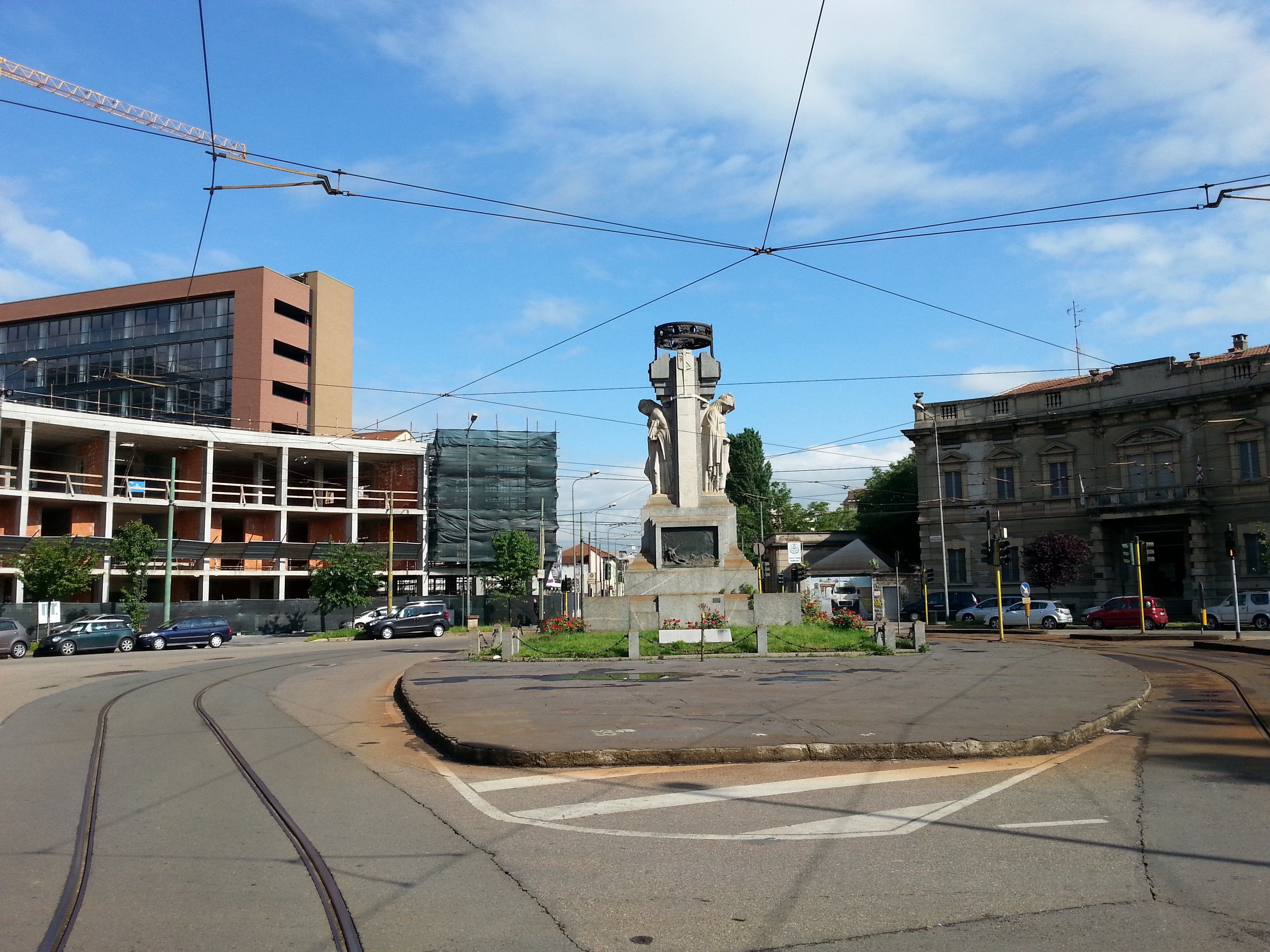 War Memorial of Musocco from south from the cross of Viale Espinasse